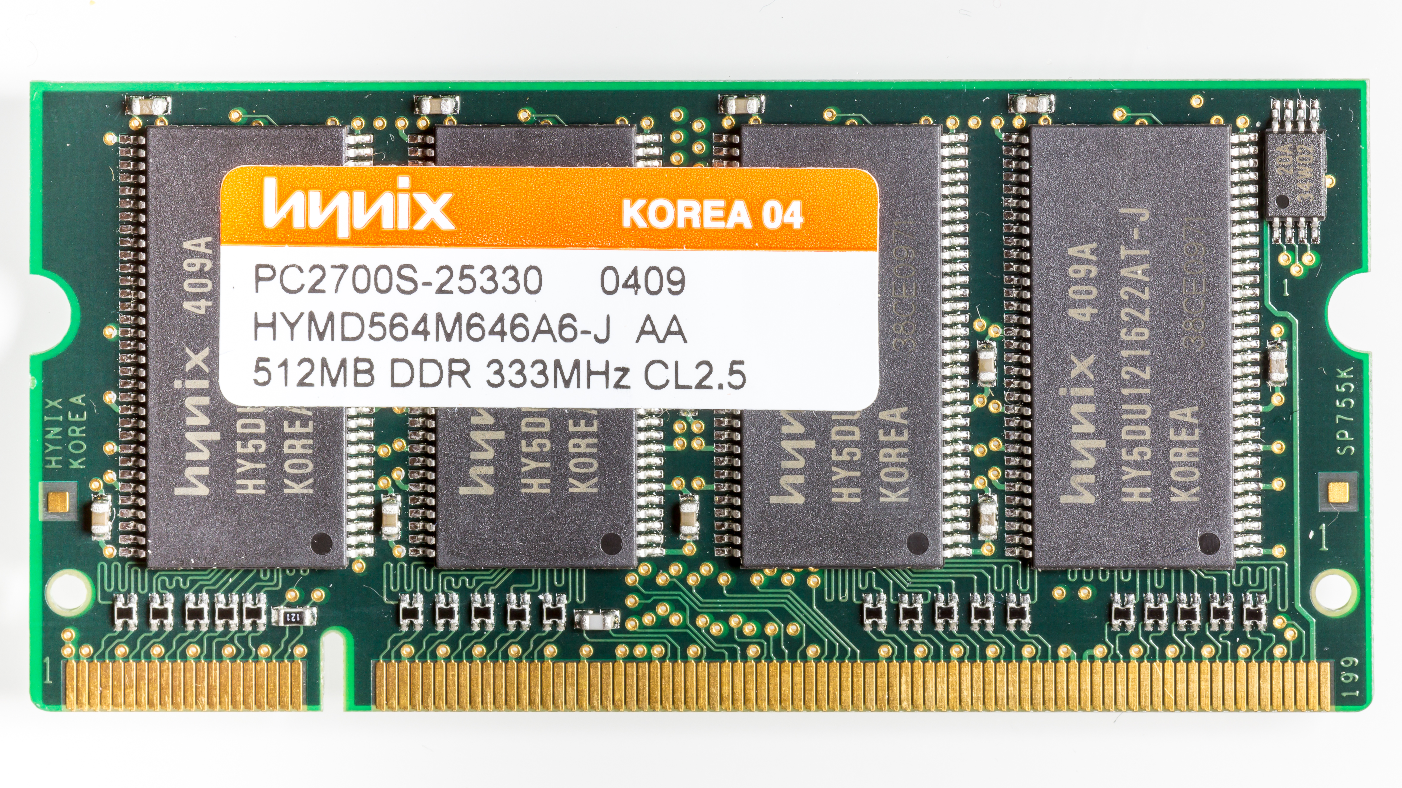 Hynix HYMD564M646A6-JAA 512MB DDR 333MHZ CL2.5